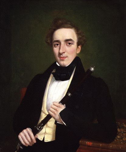 Charles Nicholson (1795-1837), Flautist and composer, appointed professor of the flute at the Royal Academy, 1822; soloist in many orchestral concerts; composed many works for the flute, oil on canvas, (762 mm x 660 mm)